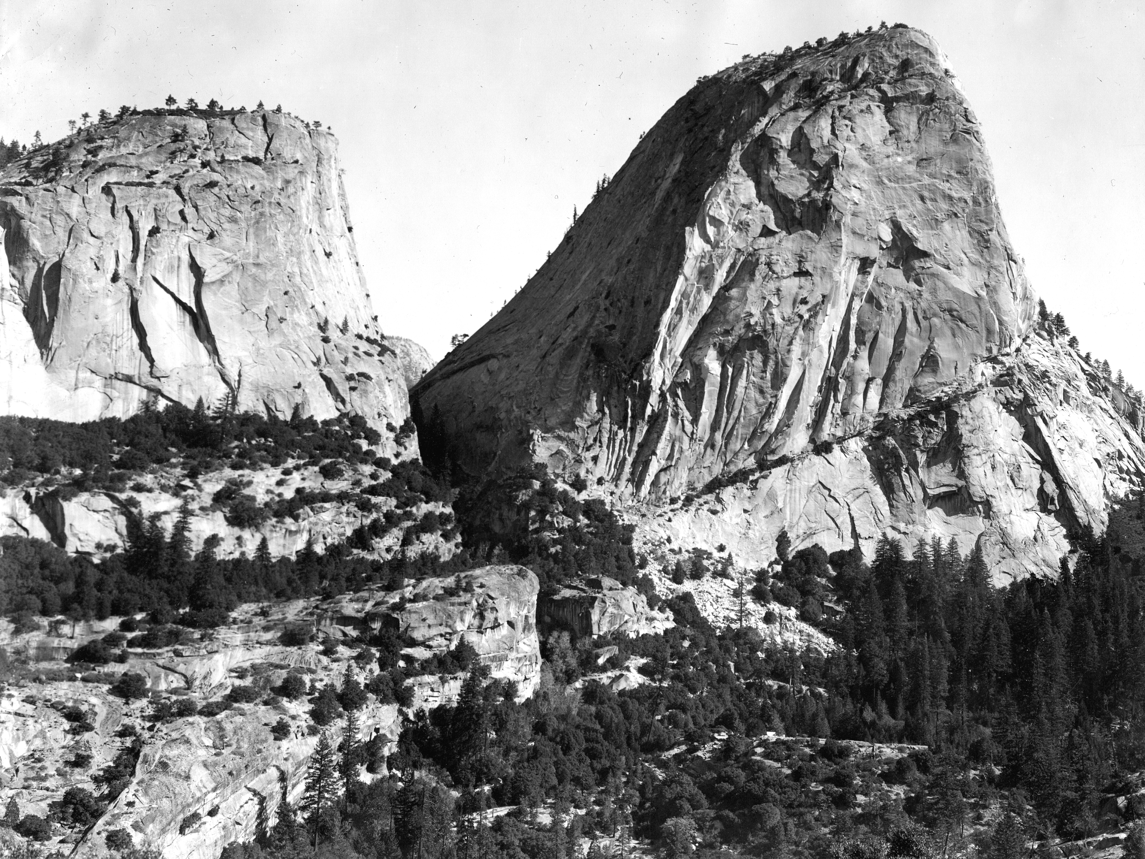 Yosemite National Park, California. Front of Liberty Cap and Mount Broderick. Their sheer, hackly fronts were subjected to the quarrying action of the Merced Glacier. The V-shaped cleft between them was gouged out along a narrow zone of shattered rock